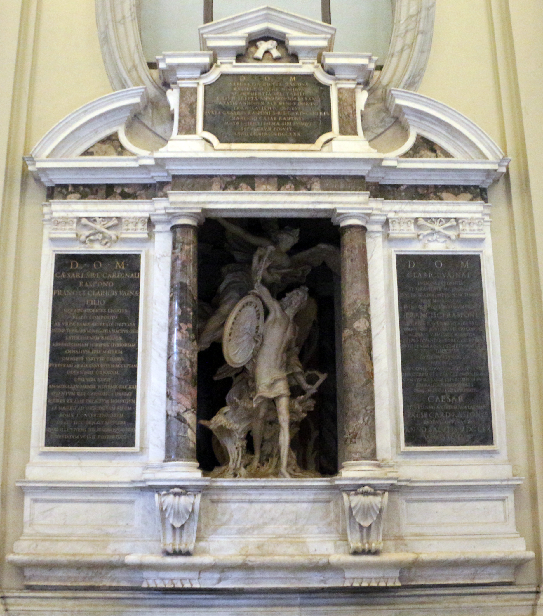 San Giovanni in Laterano (Rome) - Interior